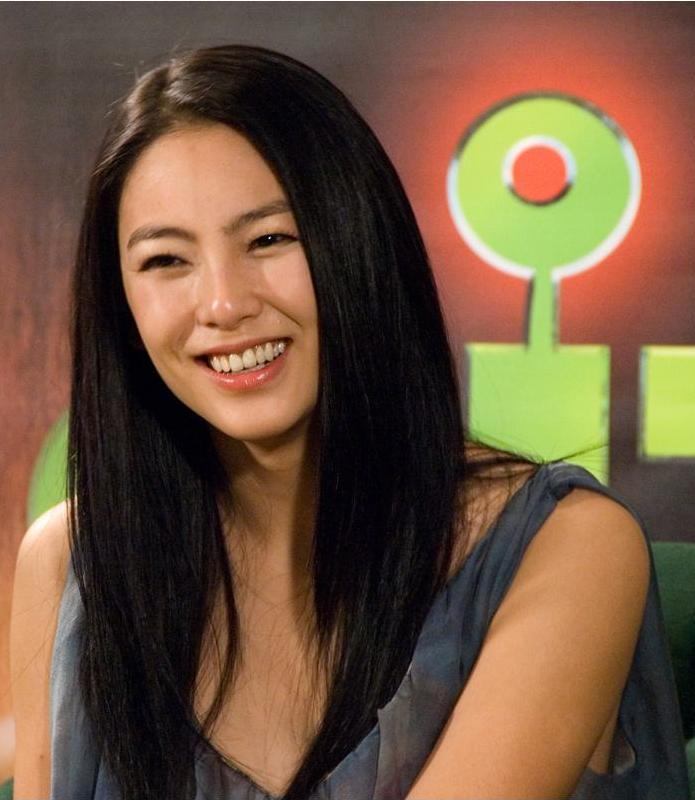 Kitty Zhang Yuqi at a press conference in Kuala Lumpur, Malaysia. "Press conference at J.W.Marriott KL on 5 Feb 2008 with Sing Yeh, Lee Sheung Ching & Kitty Zhang." Slightly cropped from the original using MS Paint.